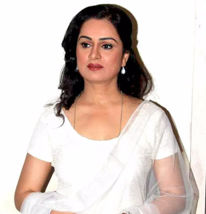 Padmini Kolhapure at the play 'Aasman Se Gire.. Khajoor Pe Atke'